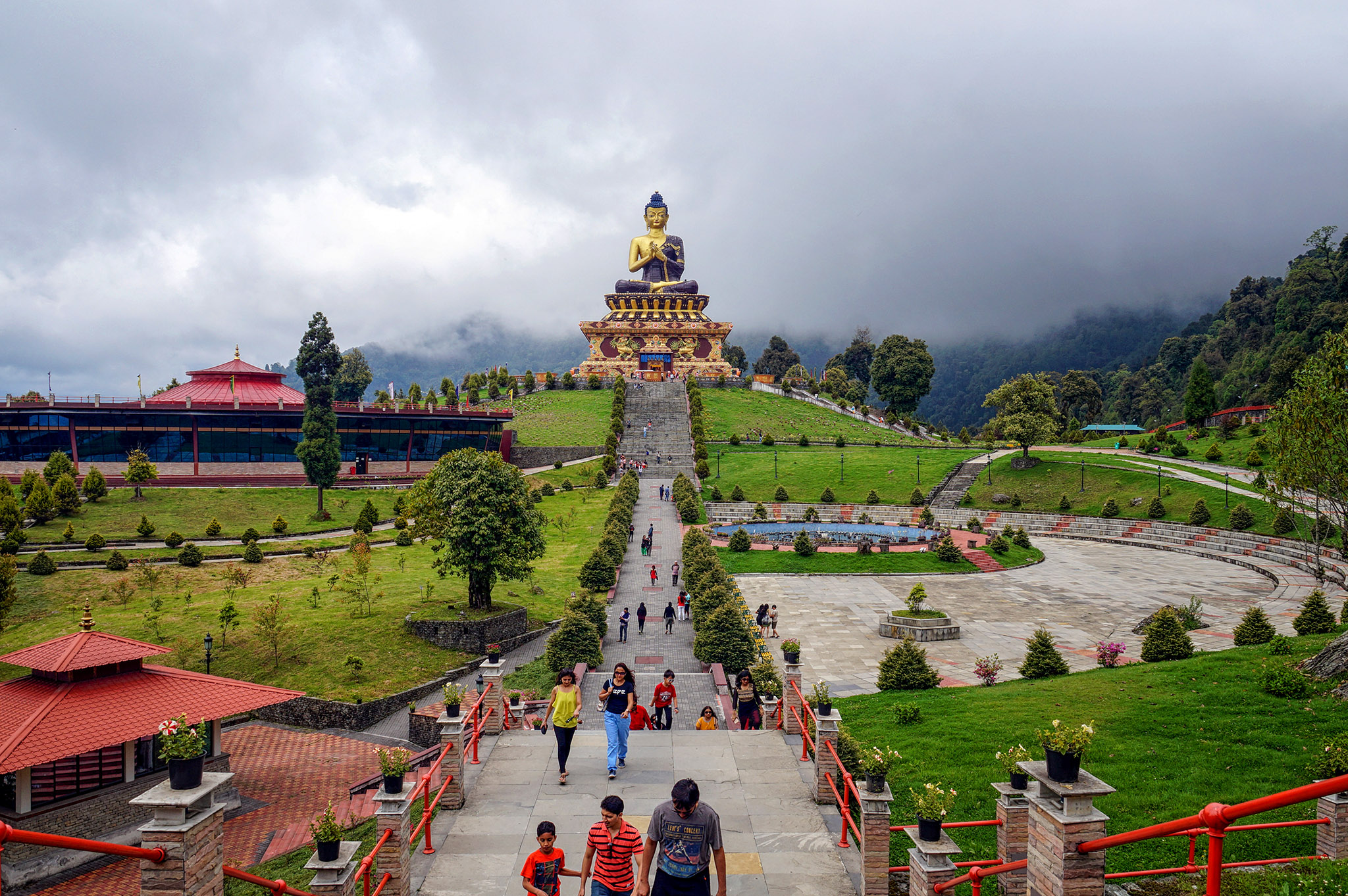 The Buddha Park of Ravangla, also known as Tathagata Tsal, is situated near Rabong (Ravangla) in South Sikkim district, Sikkim, India. It was constructed between 2006 and 2013 and features a 130-foot (40 m) high statue of the Buddha as its centerpiece. The site was chosen within the larger religious complex of the Rabong Gompa (Monastery), itself a centuries-old place of pilgrimage. Also nearby is Ralang Monastery, a key monastery in Tibetan Buddhism. Large Gautama Buddha statue in Buddha Park of Ravangla, Sikkim His Holiness the Dalai Lama entering Buddha Park Tathagata Tsal in Ravangla, South Sikkim - India. The statue was consecrated on 25 March 2013 by the 14th Dalai Lama, and became a stop on the 'Himalayan Buddhist Circuit'.[1] The statue of the Buddha marks the occasion of the 2550th birth anniversary of Gautama Buddha. This statue was built and installed in the place through the joint efforts of the Sikkim government and its people. The Buddhist circuit of this park was built here under a State government project, for boosting pilgrimage and tourism in the region. The Cho Djo lake is located within the complex, surrounded by forest.[2]